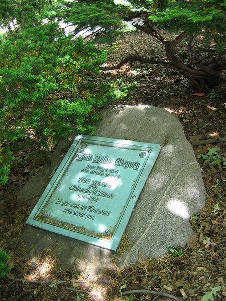 Grave of John Milton Gregory on the campus of UIUC.